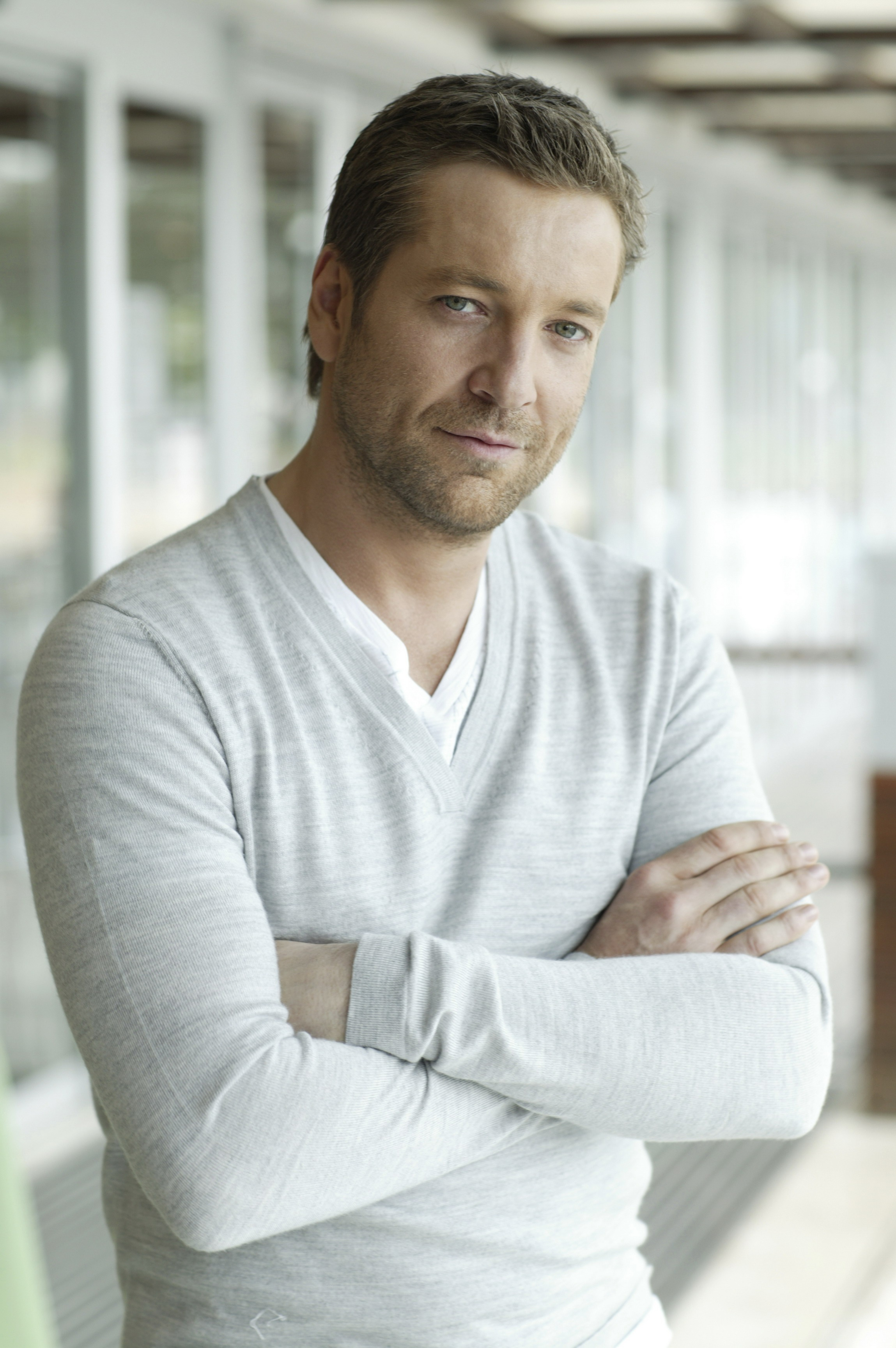 Jack Campbell (actor) in 2007, head shot